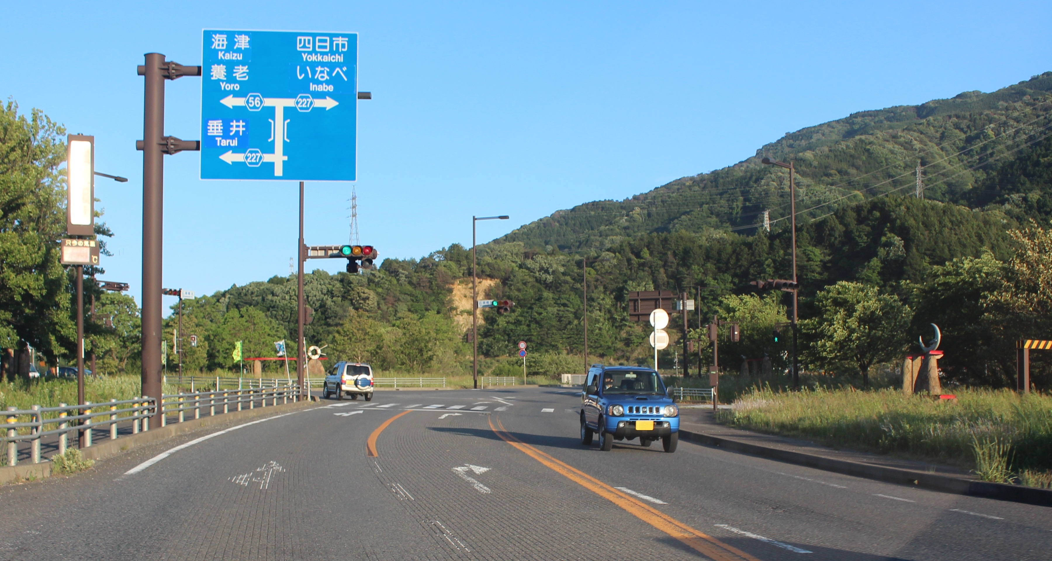 Gifu Prefectural Road Route 56 in Makida, Kamiishizucho, Ogaki, Gifu prefecture, Japan.